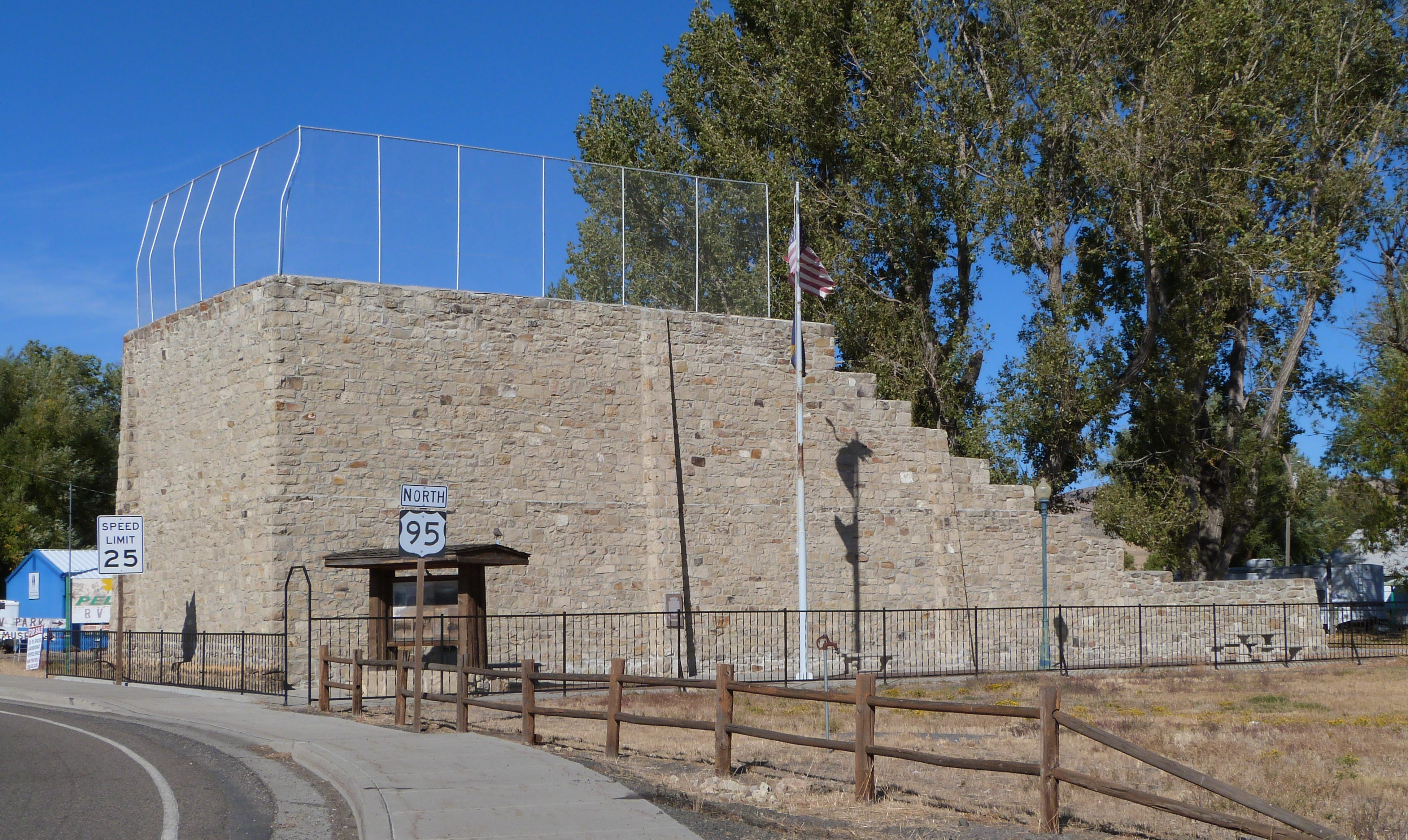 The historic Pelota Fronton (built 1915), located on Bassett Street (U.S. Route 95) in Jordan Valley, Oregon, United States, is listed on the US National Register of Historic Places.